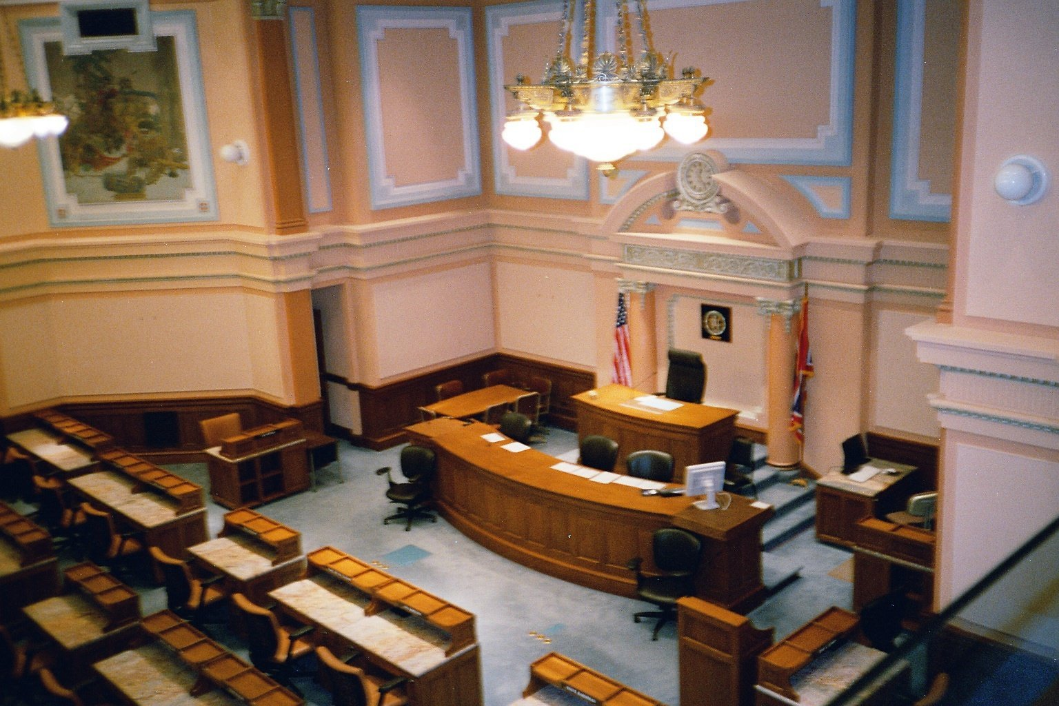 Conference room in the Capitol for the parliament of Wyoming